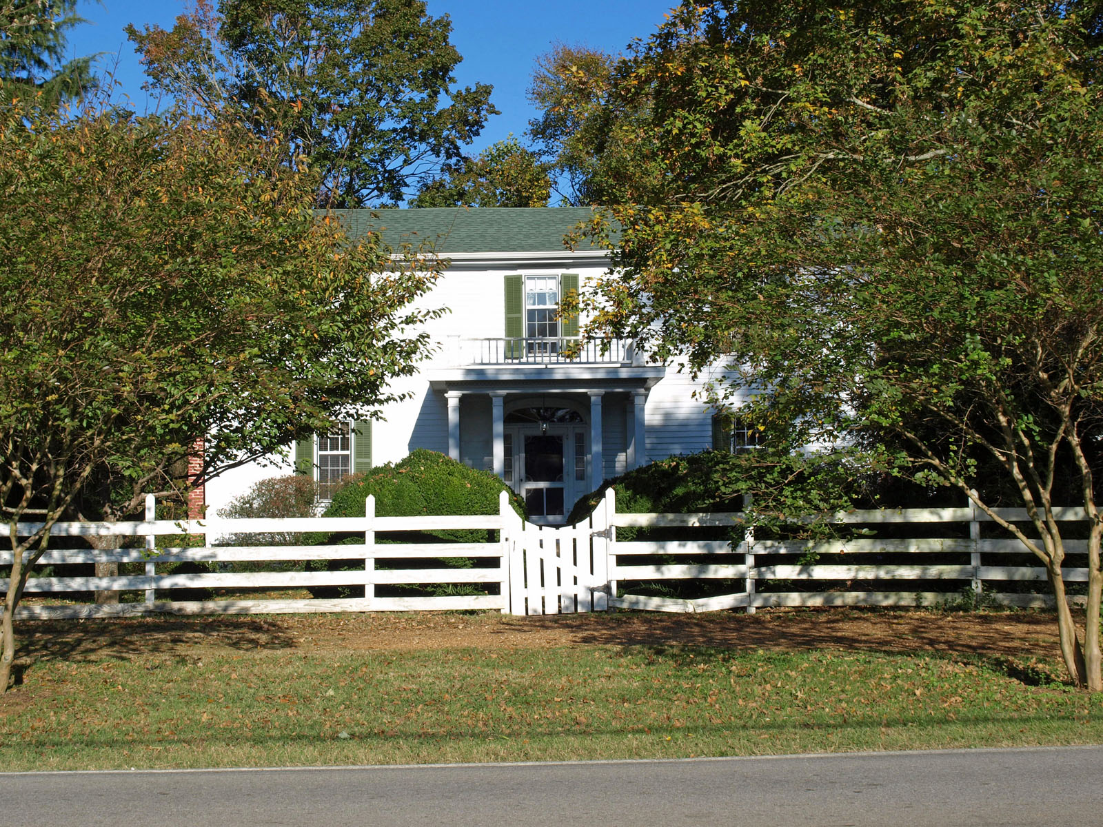 Flint River Place in Huntsville, Alabama, listed on the National Register of Historic Places.